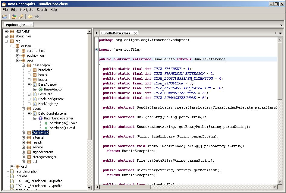 A screenshot of the "java decompiler" tool, with a decompiled java class.